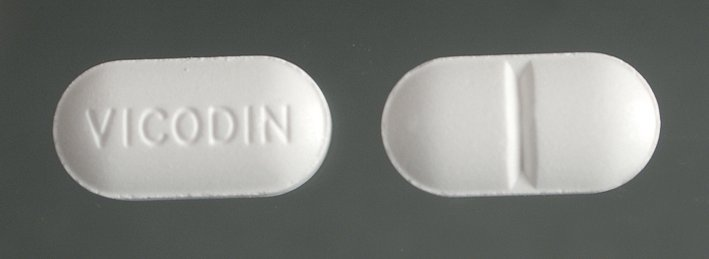 Vicodin tablets